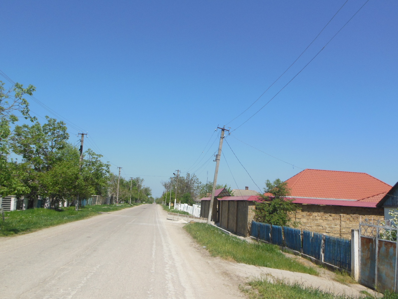 The village Aromatnoe, Belogorsky region, Crimea